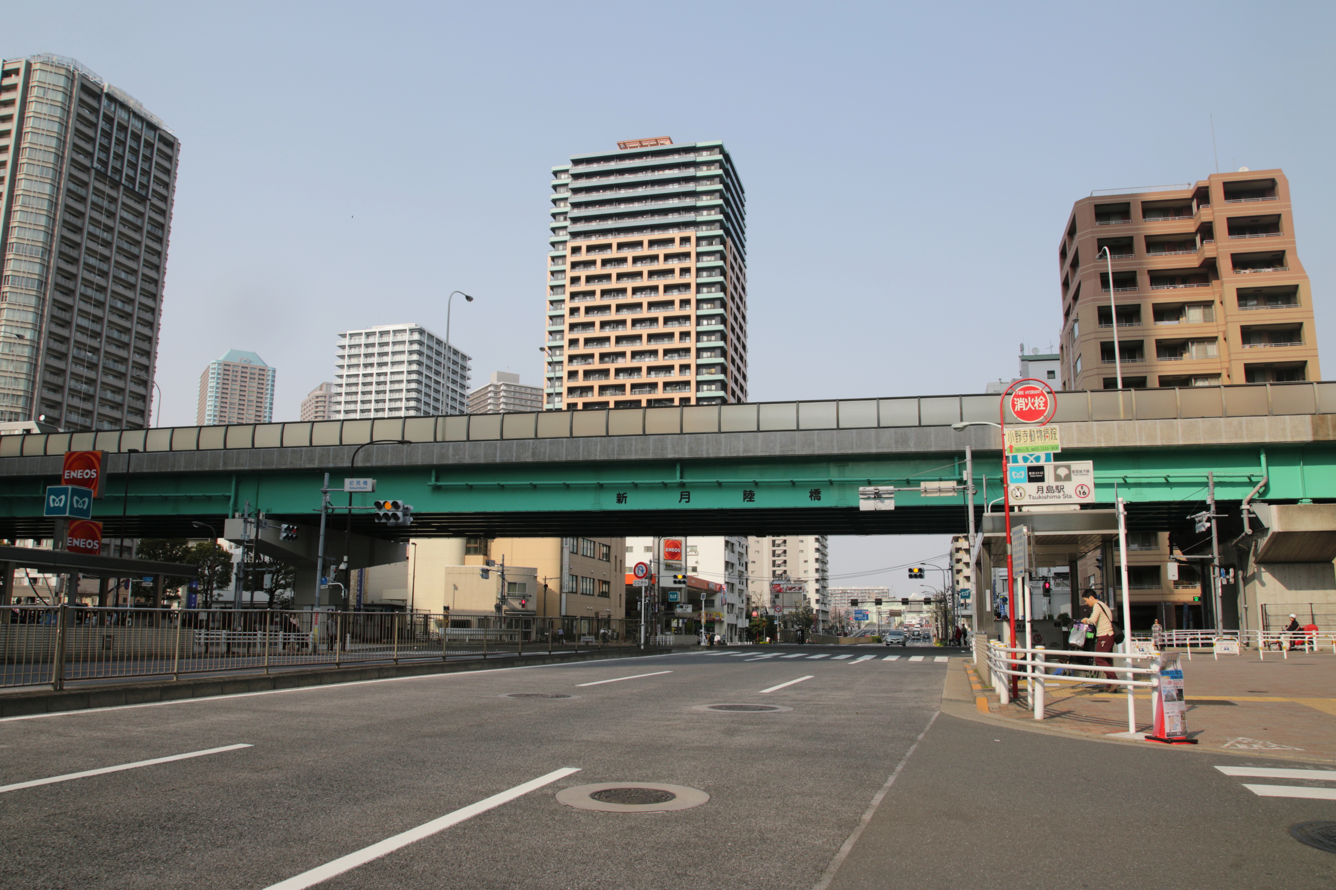 Shingetsu-rikkyo from Hatsumibashi intersection, taken on 2019-04-07.